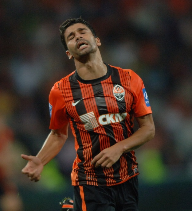 Eduardo of is Attacking